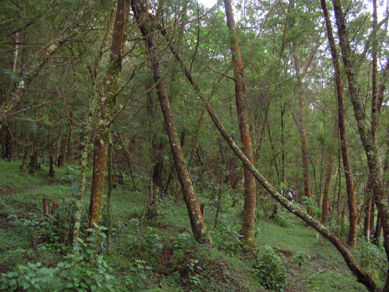 Forest in the Nilgiri Hills